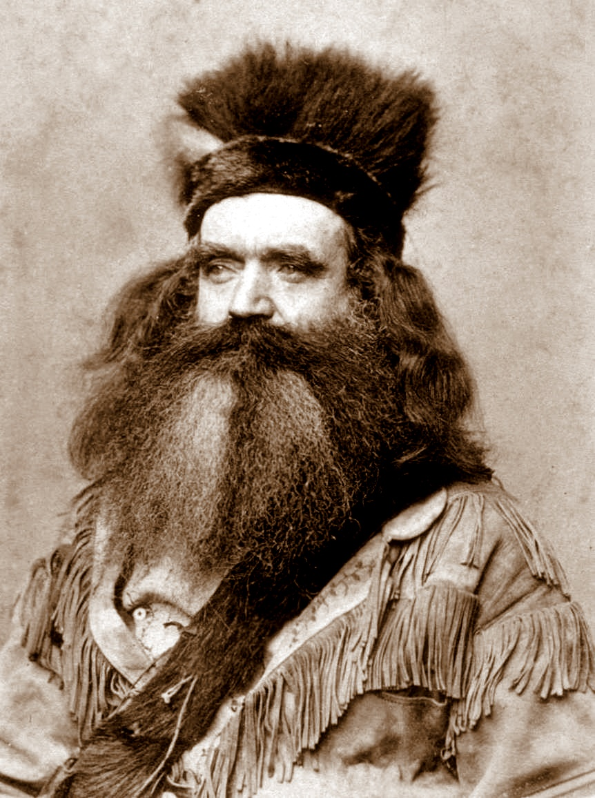 Seth Kinman California Hunter